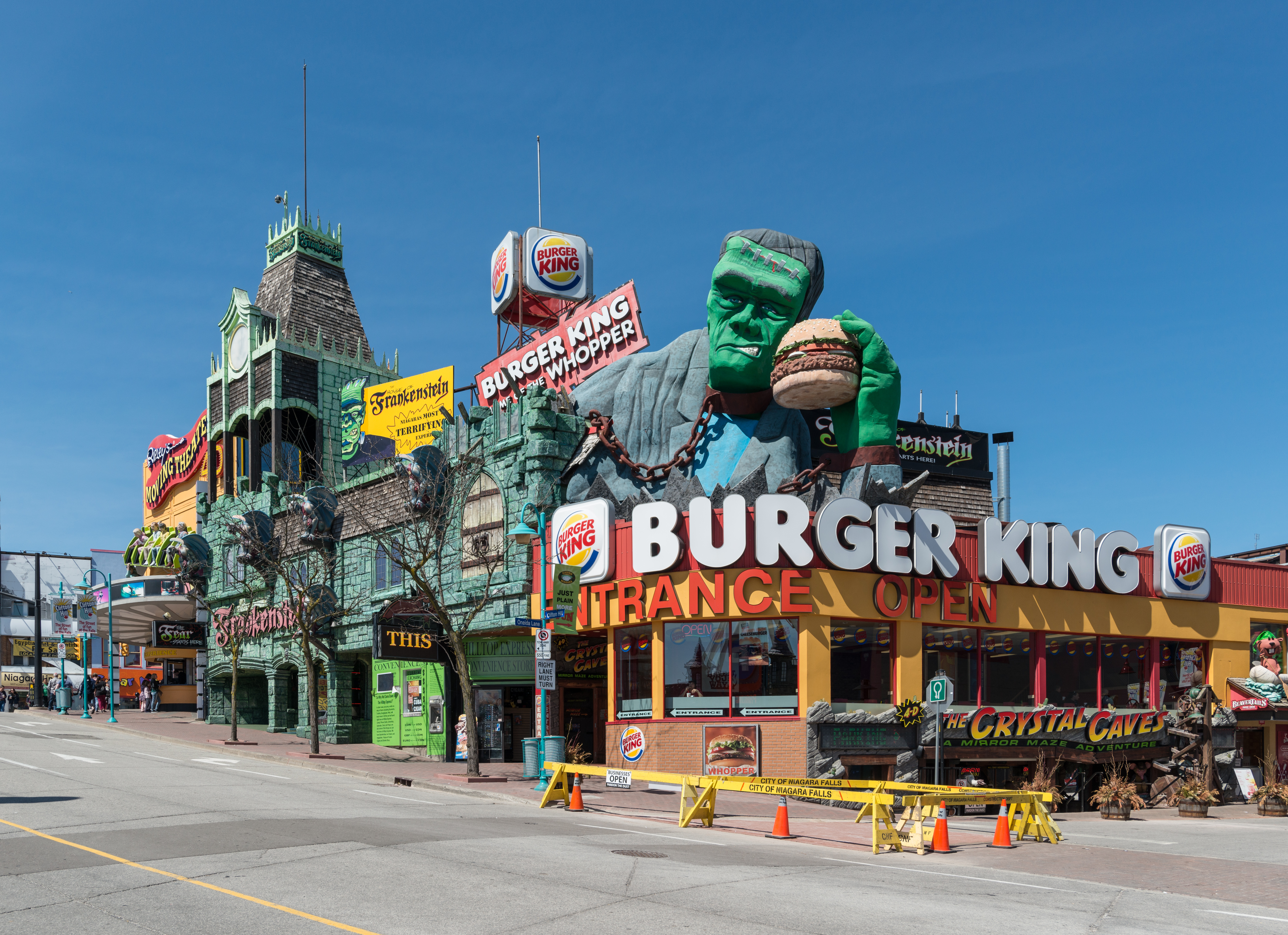 Several visitor attractions in the Clifton Hill amusement area of Niagara Falls, Ontario. Depicted are Ripley's Moving Theatre, The House of Frankenstein, as well as a Burger King restaurant.